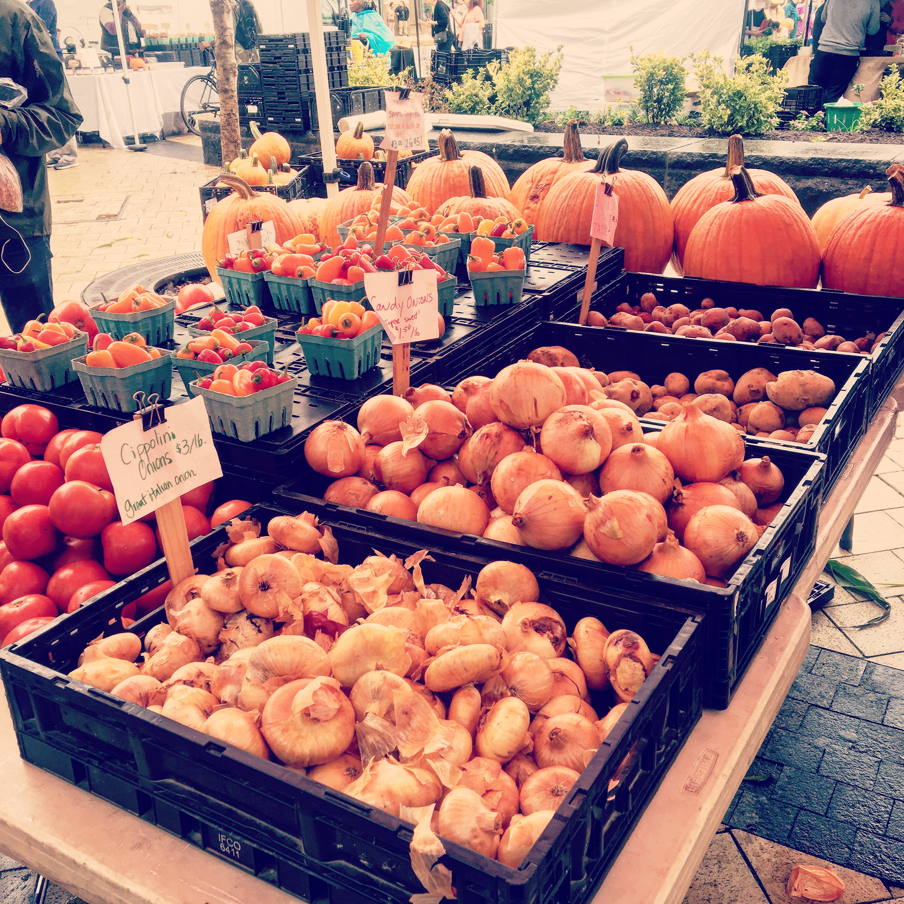 Vendors at the Columbia Heights Farmers Market